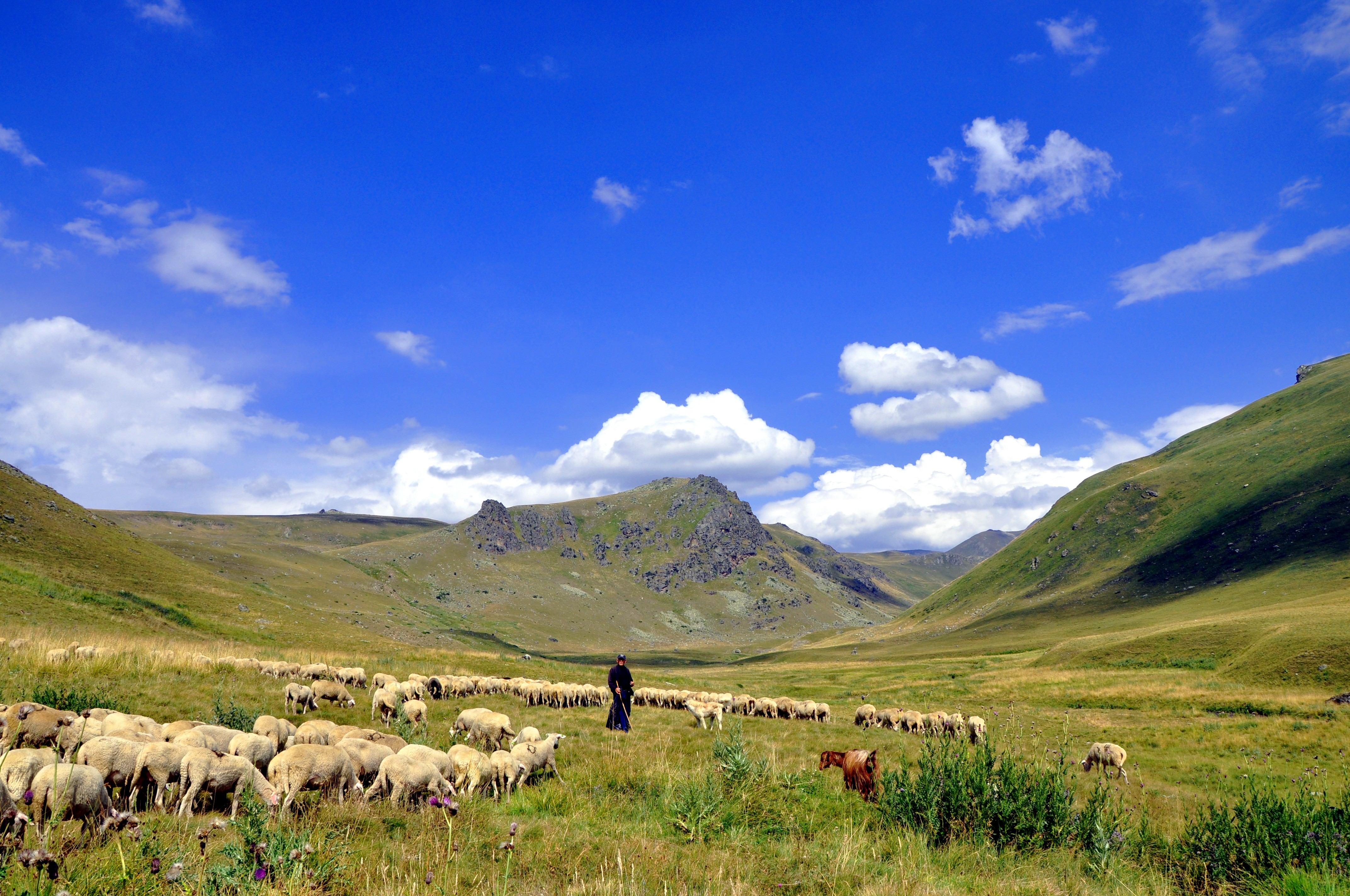 Parku Kombëtar Sharri, Prizren Suharekë Kaçanik Shtërpcë, Dragash